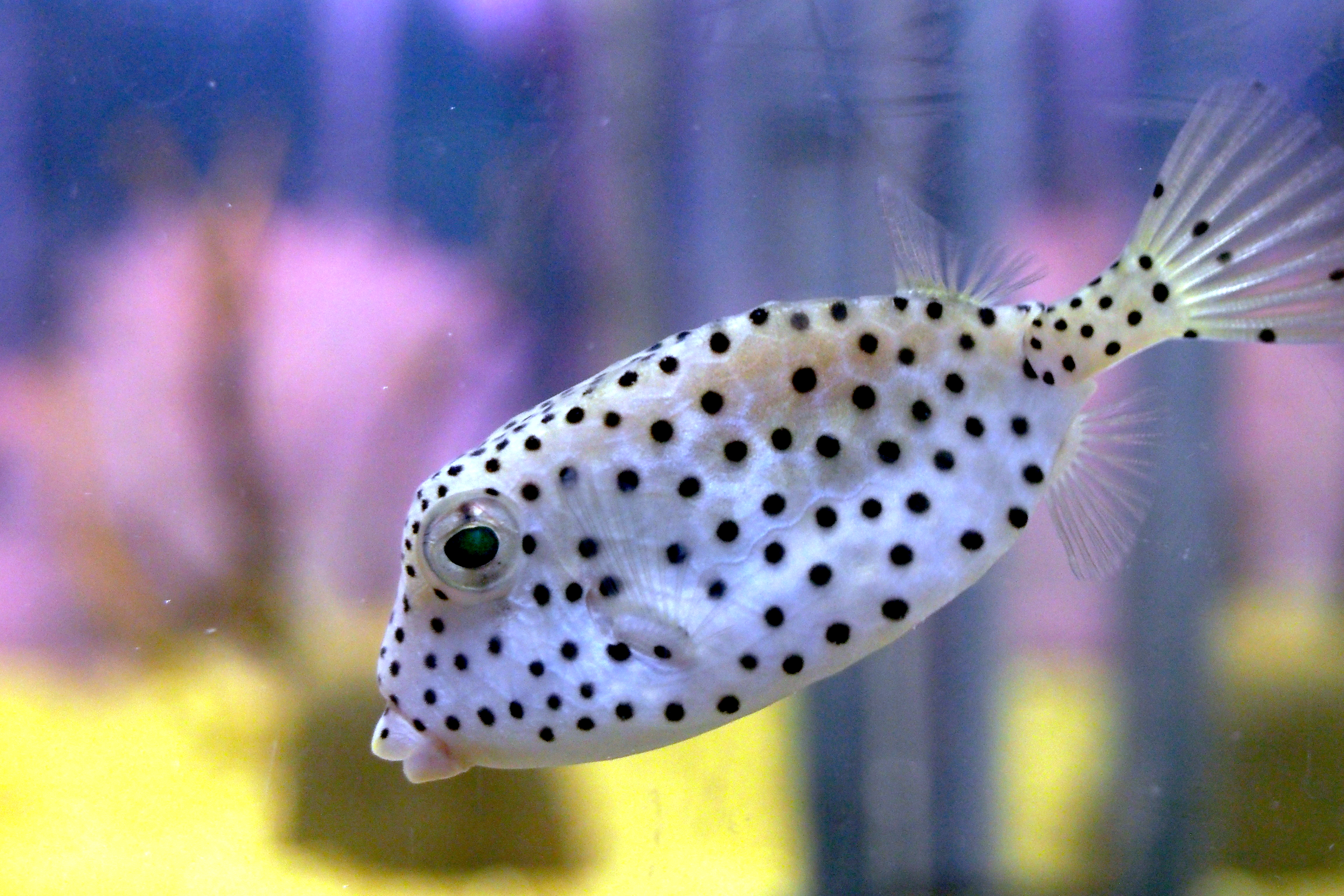 in Sunpiazza aquarium.